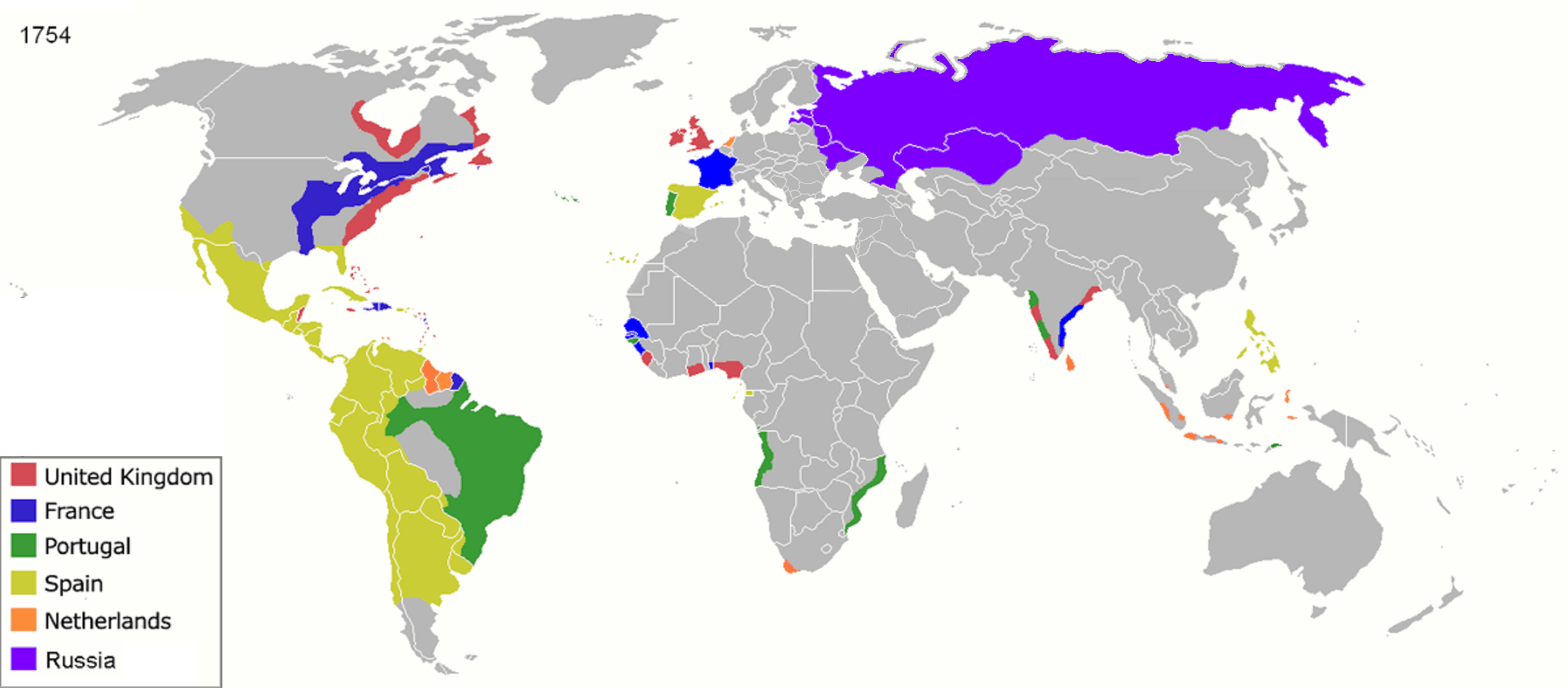 Map of major world powers by year, derived from public domain animated map on wikipedia. Maps of world history BC 2000 · 1000 · 500 · 400 · 323 · 300 · 200 · 100 · 50 AD 1 · 50 · 100 · 200 · 250 · 300 · 400 · 500 · 700 · 750 · 820 · 900 · 1556 · 1700 · 1815 · 1859 Maps of colonization history 1492 · 1550 · 1600 · 1660 · 1754 · 1800 · 1812 · 1822 · 1885 · 1898 · 1914 · 1920 · 1936 · 1938 · 1945 · 1959 · 1974 · 1975 · 2007 Animated Map Maps of Cold War 1959 · 1980 · see also: Eastern Hemisphere only maps template (1300BC-1500AD) (this template: · view · discuss ) As the orriginal licence of the animation was Public Domain, this image which has been derived from it is too: This work has been released into the public domain by its author, Andrei nacu. This applies worldwide. In some countries this may not be legally possible; if so: Andrei nacu grants anyone the right to use this work for any purpose, without any conditions, unless such conditions are required by law.